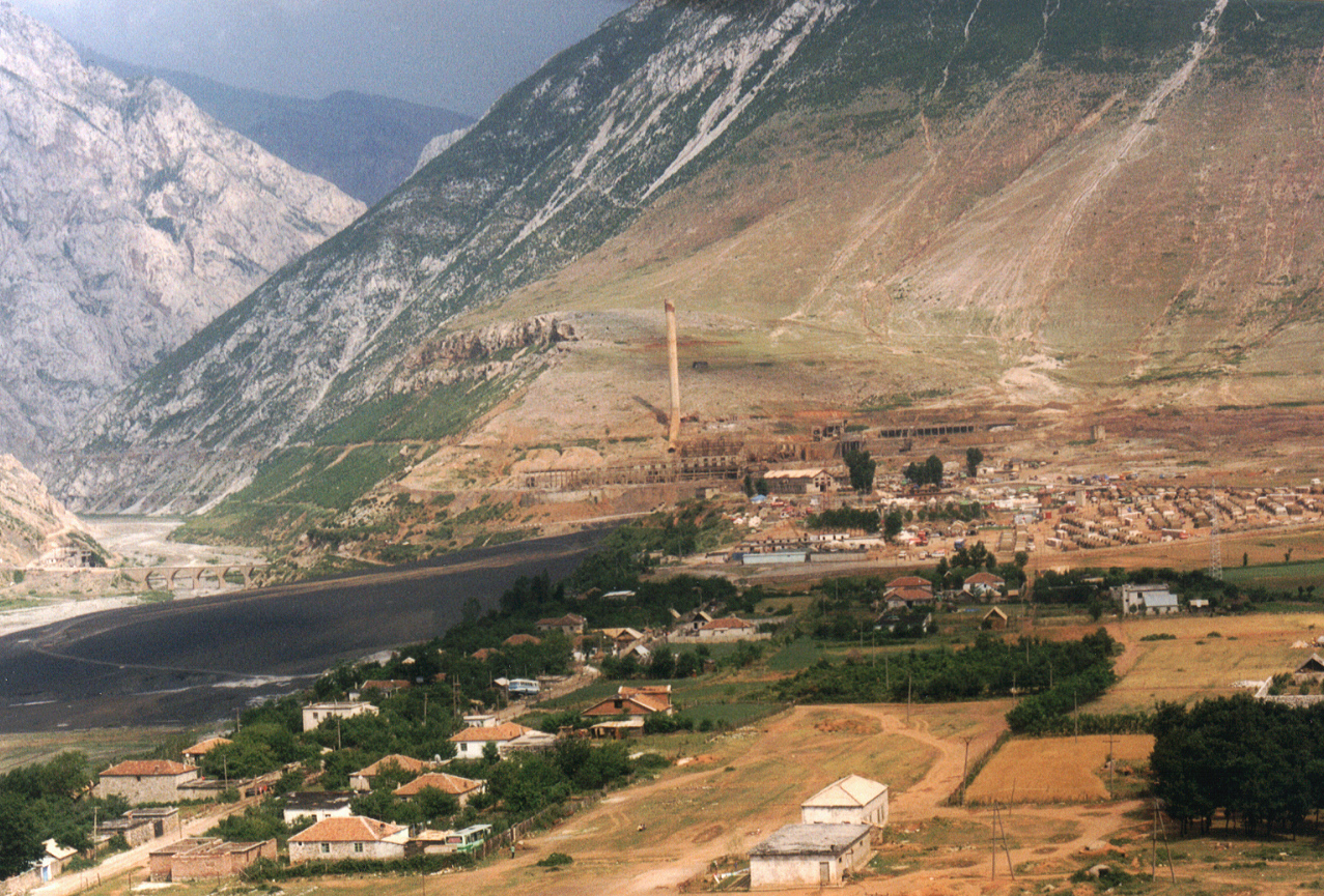 Refugee camp near Kukës on the properties of an old mine